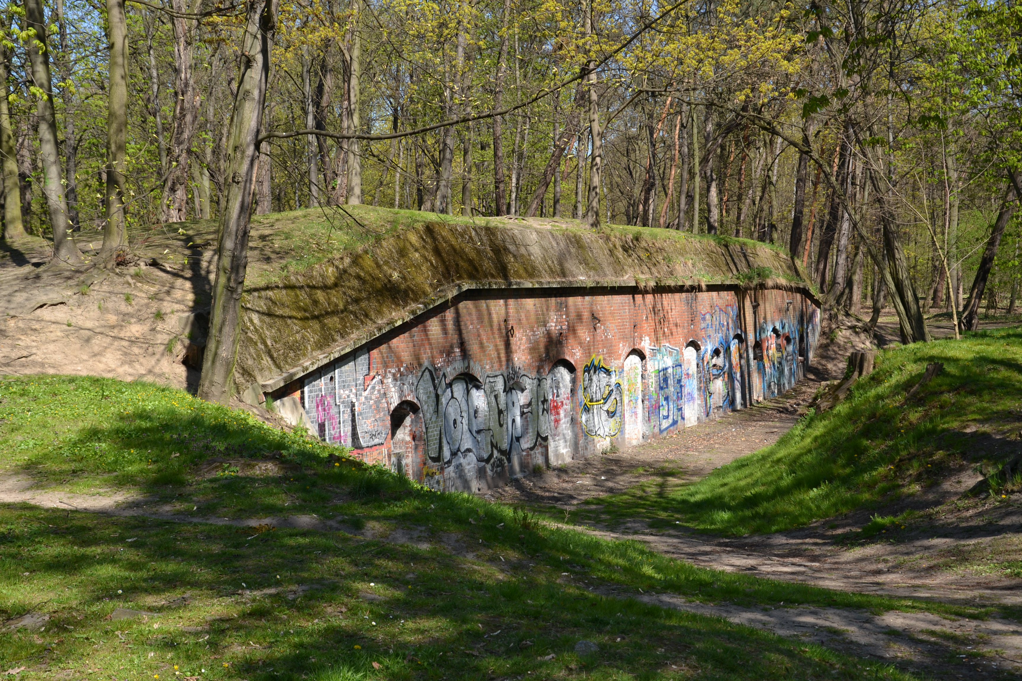 Fortress Breslau 1890-1914 - infantry shelter IR.10